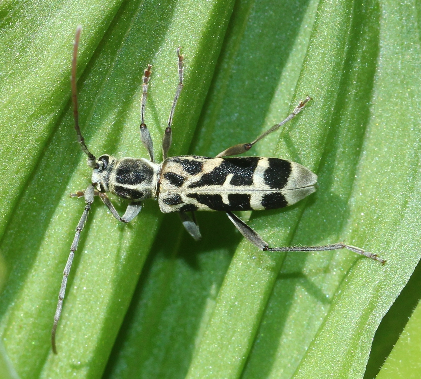 Paraclytus excultus in Mount Ozugongen, Ibigawa, Gifu prefecture, Japan.